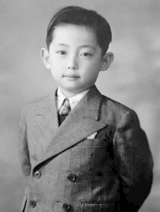 Mei Baojiu, a contemporary Peking opera artist, who was a child before 1950s. 中文（中国大陆）: 中国著名京剧演员梅葆玖幼年时的照片。保守估计，本照片于1950年代拍摄，故属于公有领域。